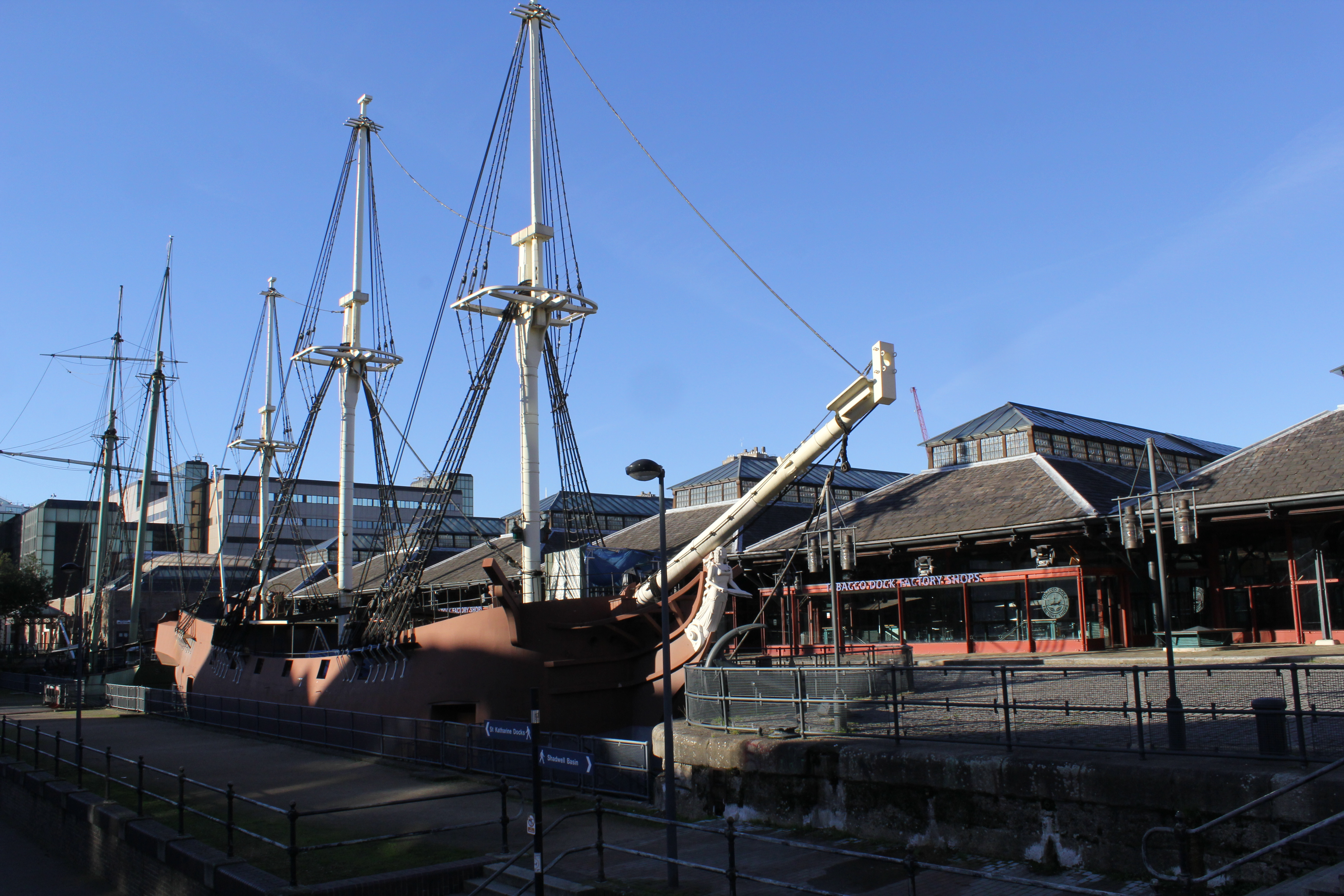 Tobacco Dock, London